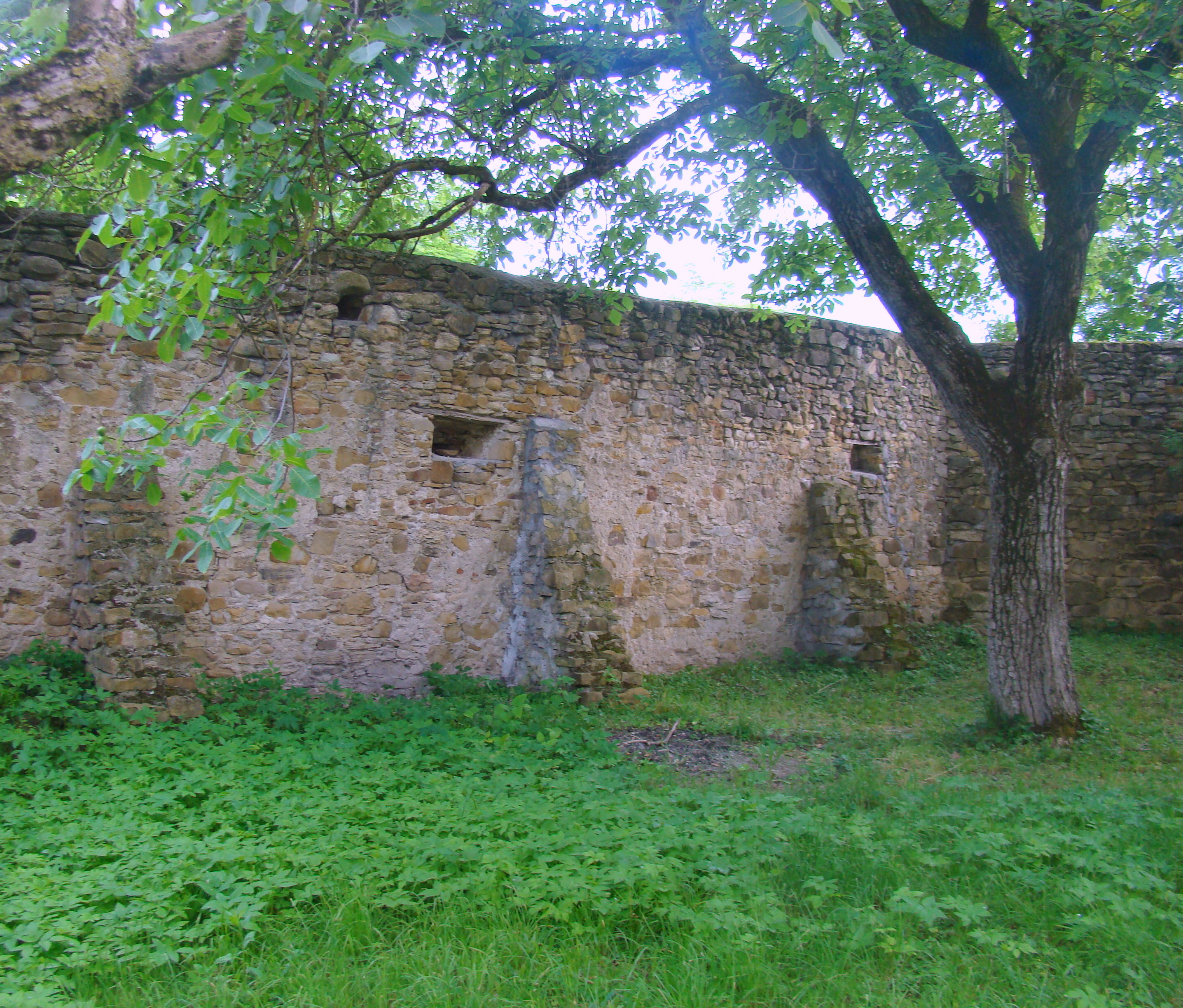 Fortified church in Ticușu Vechi, Brașov County, Romania